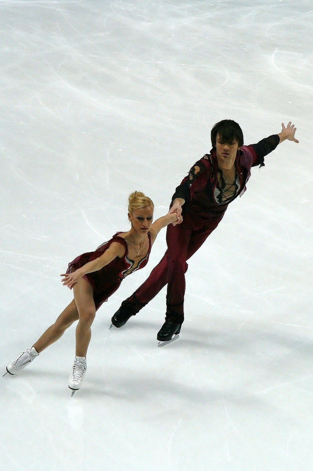 Tatiana Volosozhar and Maxim Trankov at the 2011 World Figure Skating Championships